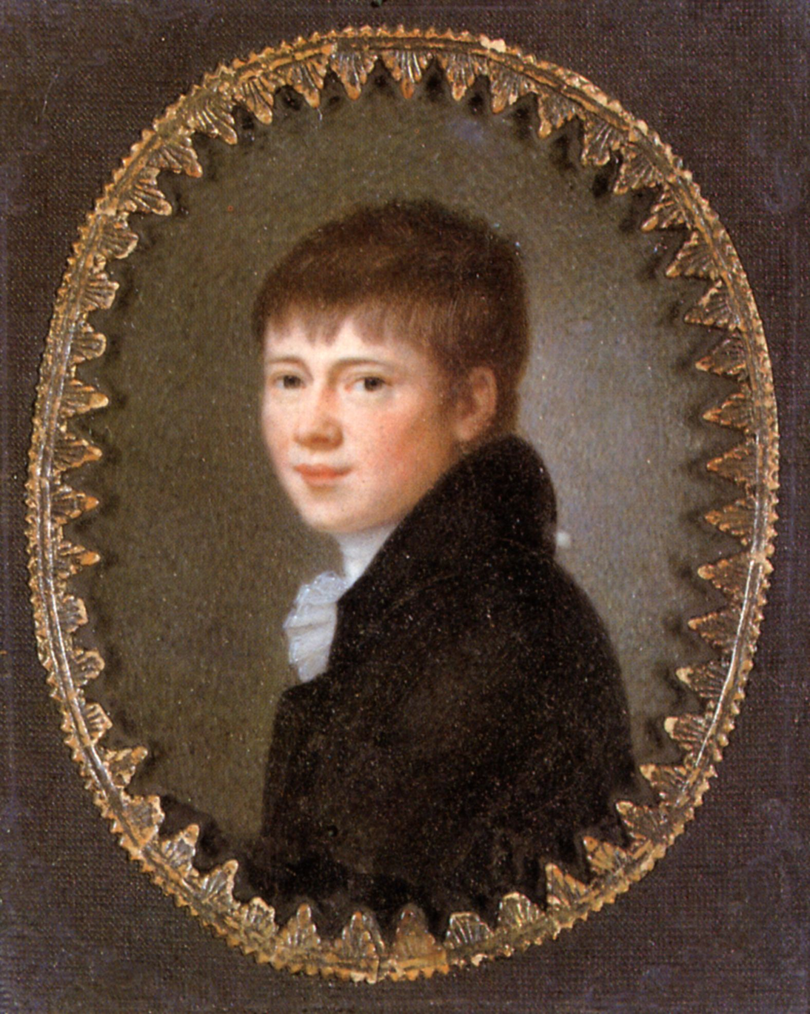 An authentic portrait of Heinrich von Kleist. Miniature painted by Peter Friedel. Made for Kleist's bride Wilhelmine von Zenge and mentioned in a letter of Kleist to her in April 1801. [2]